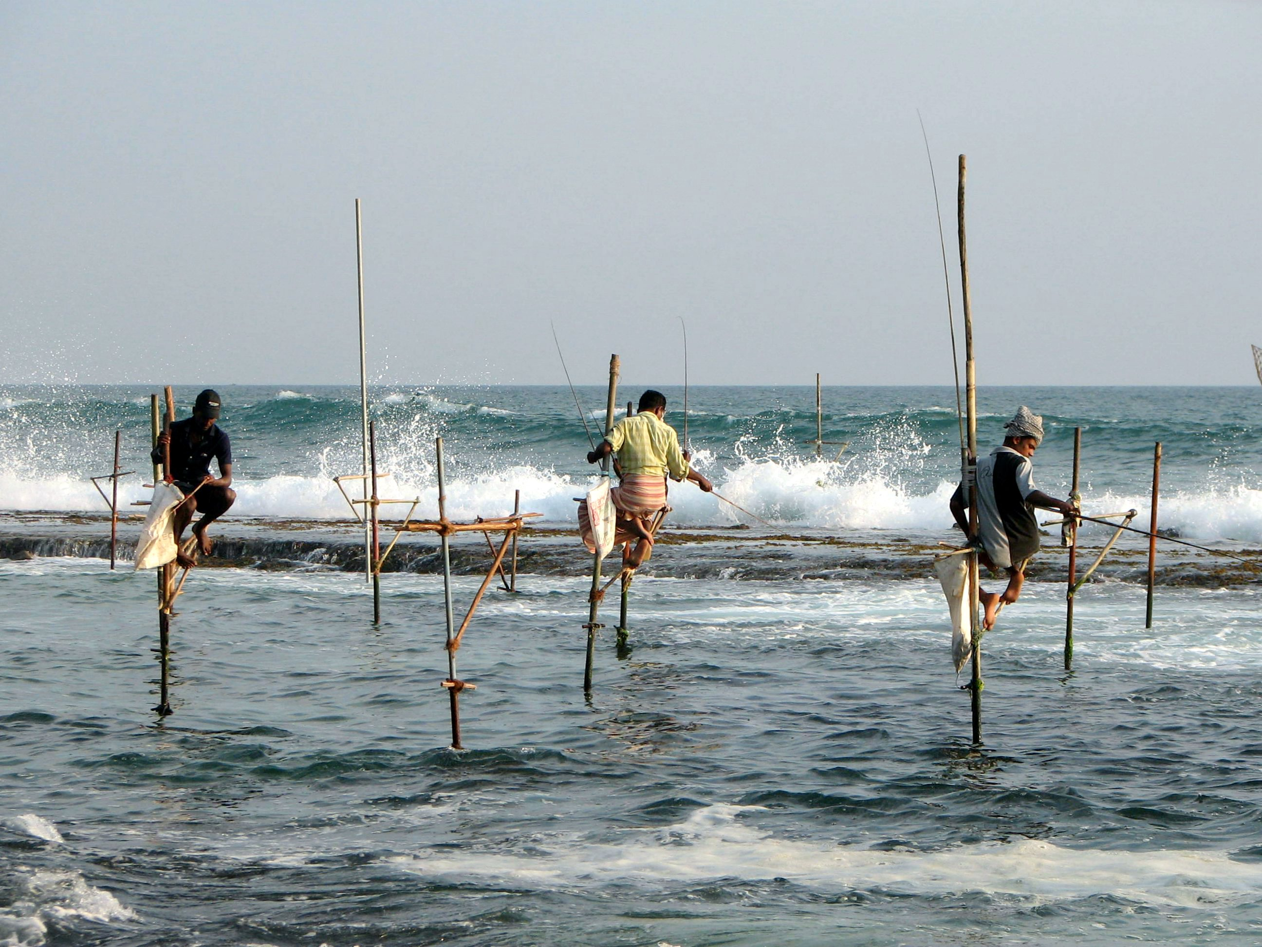 Stilts fishermen near Unawatuna, Sri Lanka